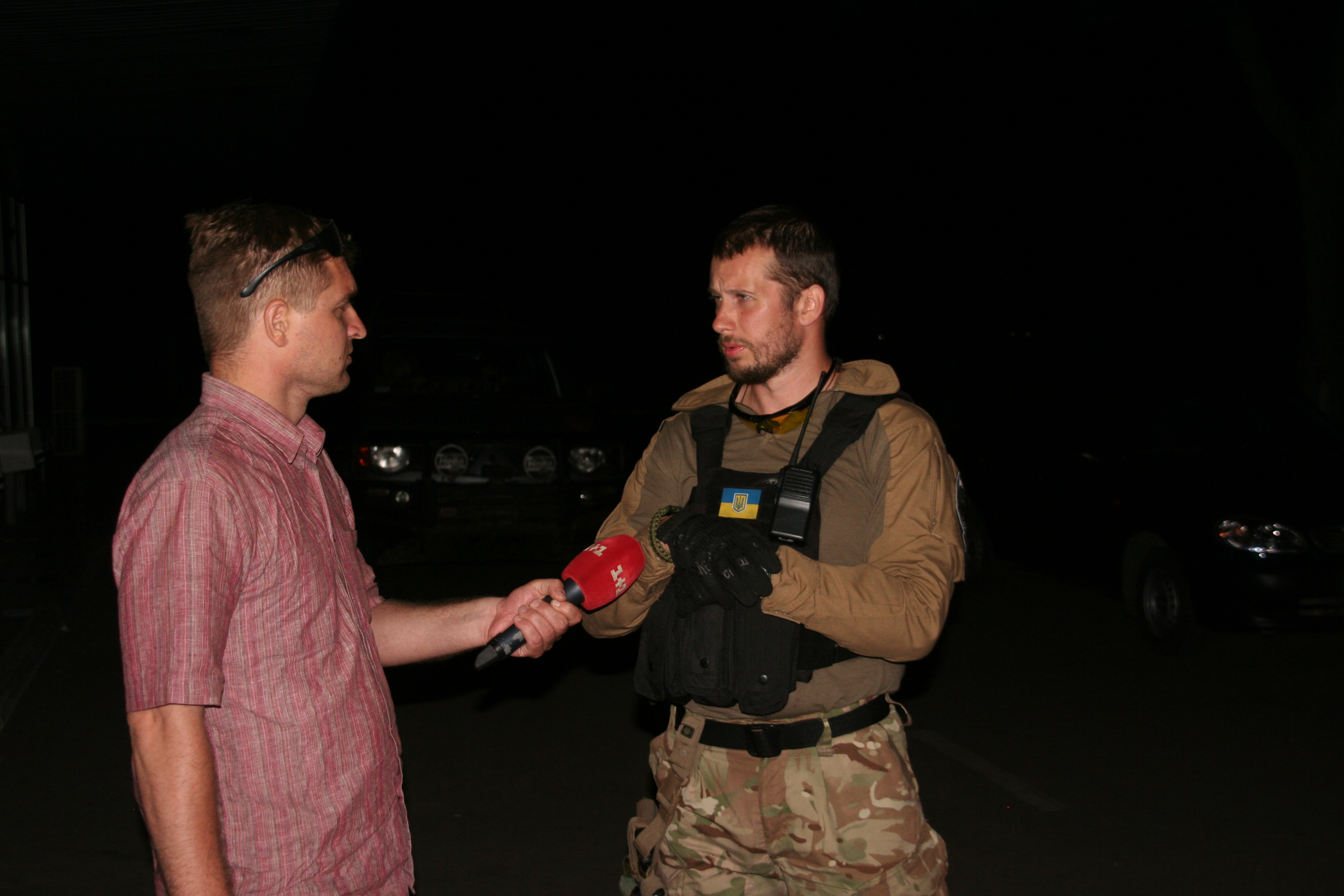 Andriy Biletsky, commander of the Azov Battalion, gives an interview to a Ukrainian TV journalist during the night between 5 and 6 July 2014.